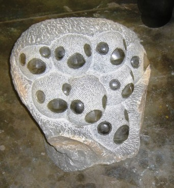 PC - 2005 - 0006, Ndandarika Lorcadia, Proud of Africa